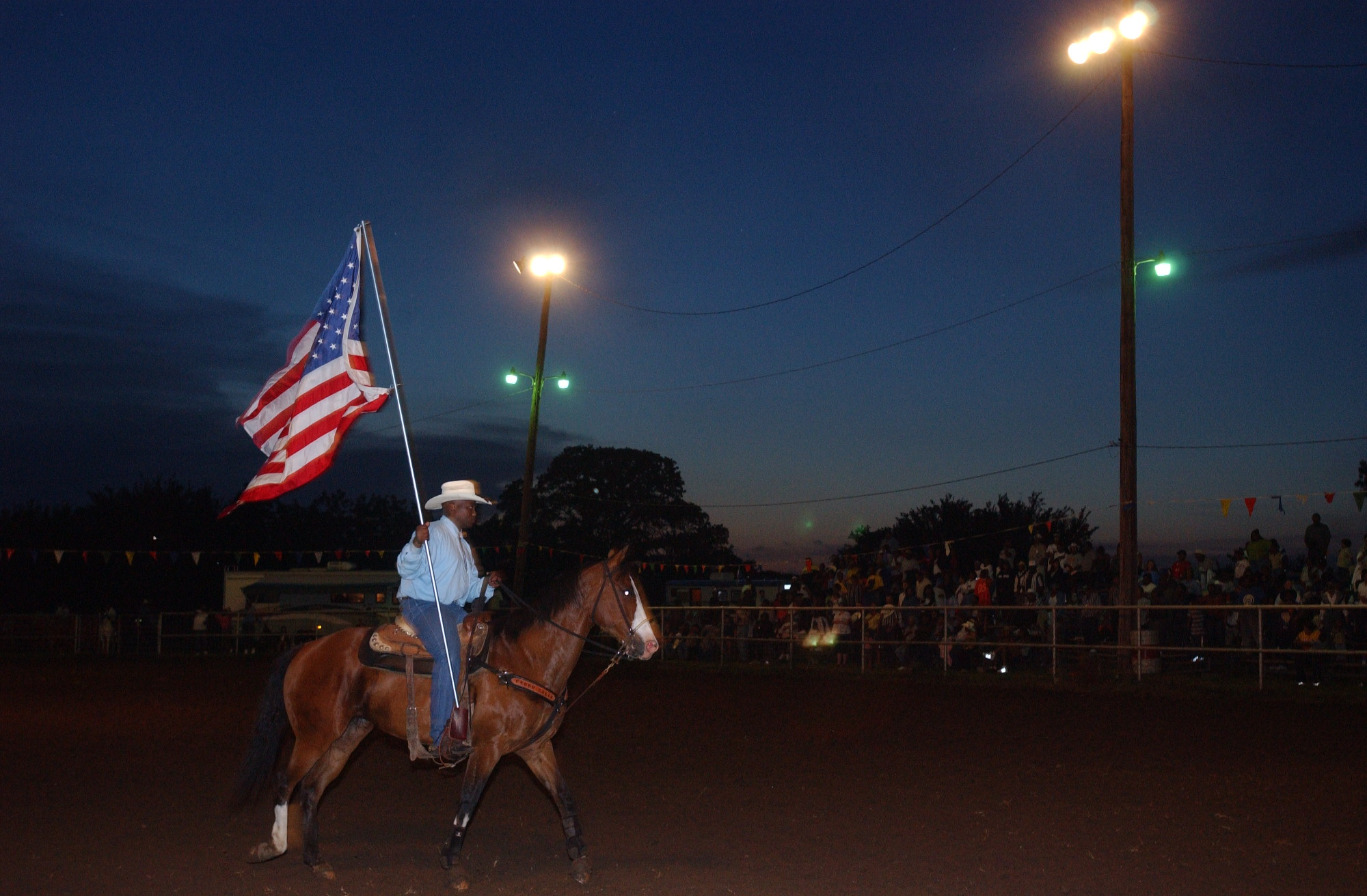 Description: This photograph was taken at the opening ceremony of the 100th Birthday Rodeo & Bar-B-Q Festival held at the Boley Rodeo Arena in Boley, Oklahoma. Creator/Photographer: Steven M. Cummings Medium: Digital photograph Culture: American Geography: USA Date: 2003 Collection: Jubilee Research Collection - This body of five hundred digital images is the result of two years spent documenting various celebrations, festivals, pastime events, and religious activities by Steven M. Cummings, the museums staff photographer. The collection includes images from Pinkster in Tarrytown, New York; Juneteenth in Galveston, Texas; the Bud Billiken Parade in Chicago; and August Quarterly in Wilmington, Delaware. Persistent URL: Repository: Anacostia Community Museum Accession number: jbbor0006